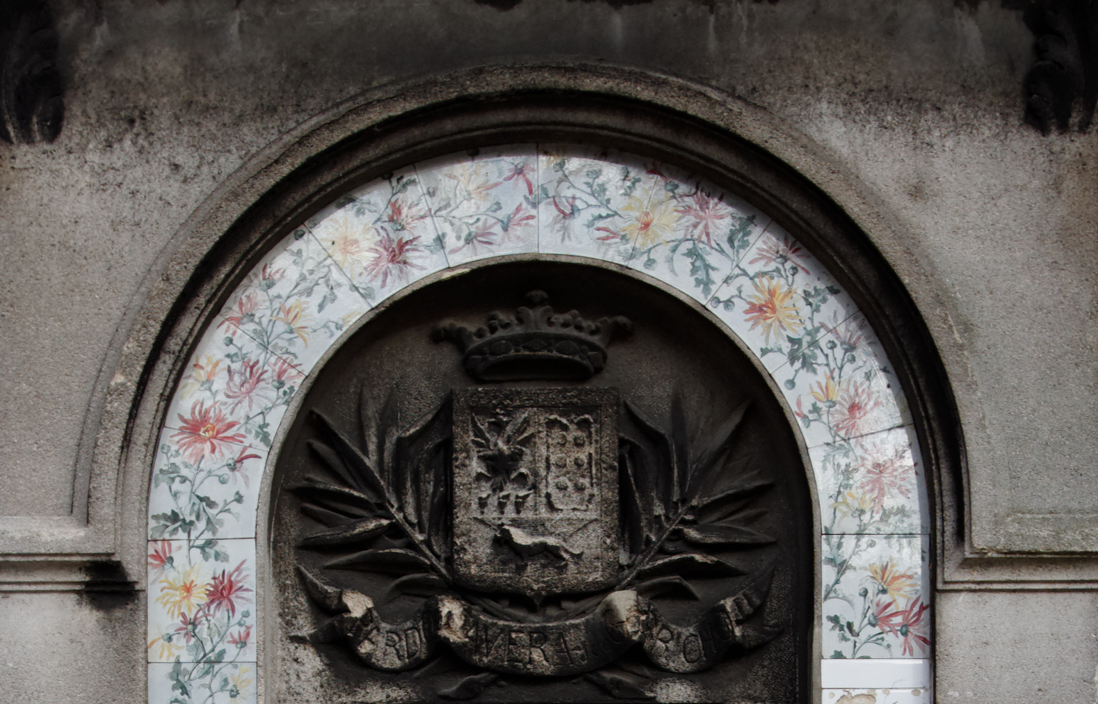 Tombstone of Trinidad Pardo de Tavera, in Père Lachaise Cemetery, in Paris.